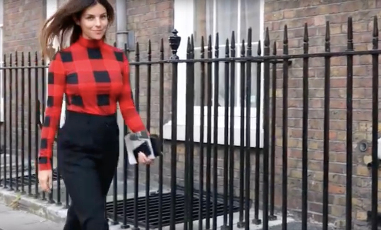 French model Julia Restoin Roitfeld during London Fashion Week - Spring Summer 2019